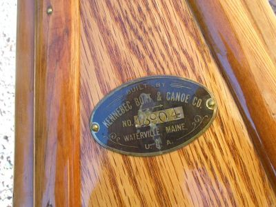 Serial number plate on deck of of Kennebec canoe